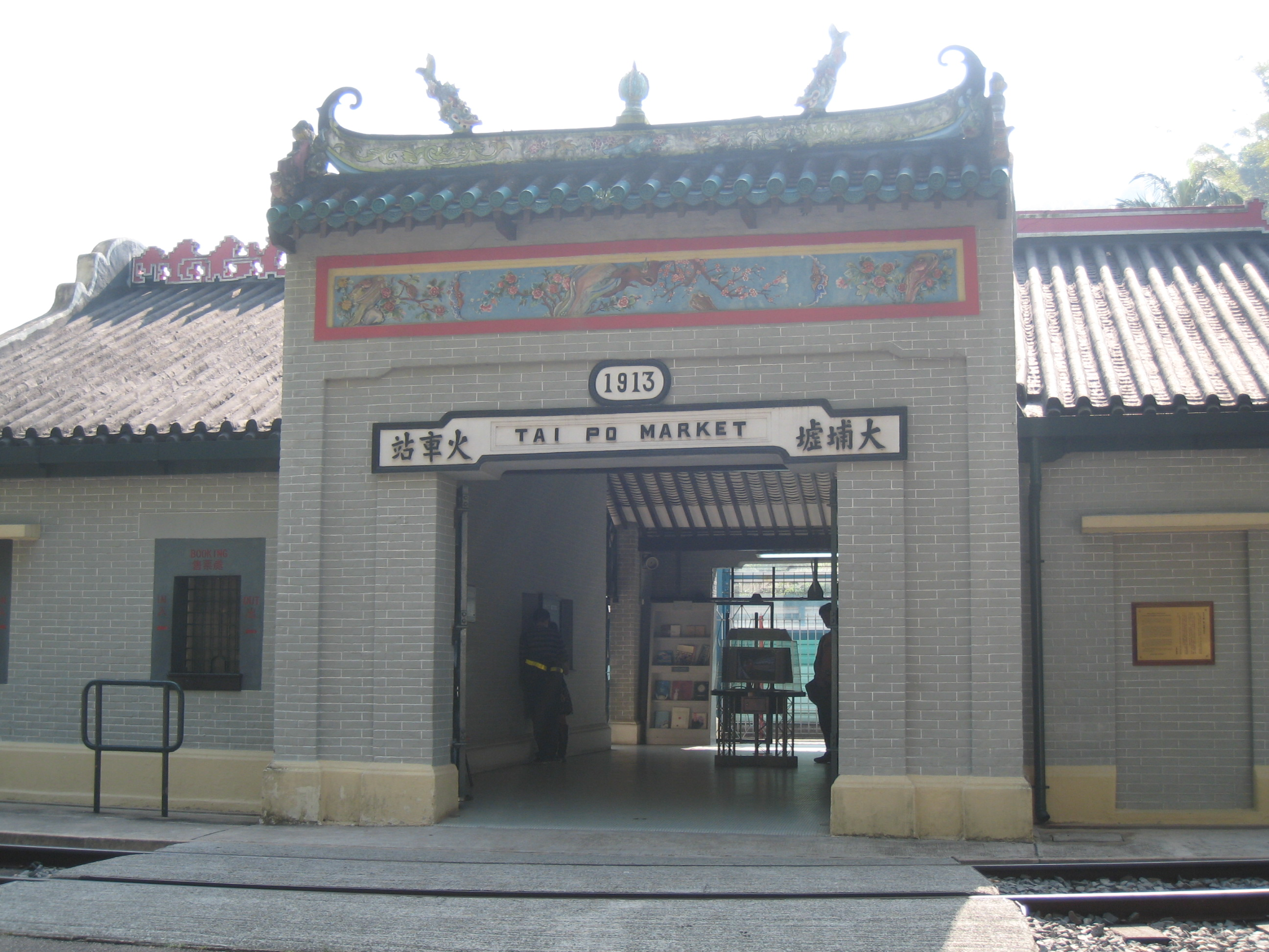 old stationbuilding of Hong Kong Railway Museum